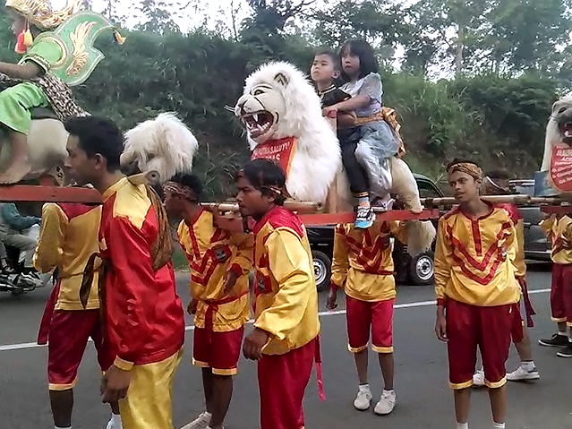 Sisingaan is traditional lion dance from West Java, Indonesia